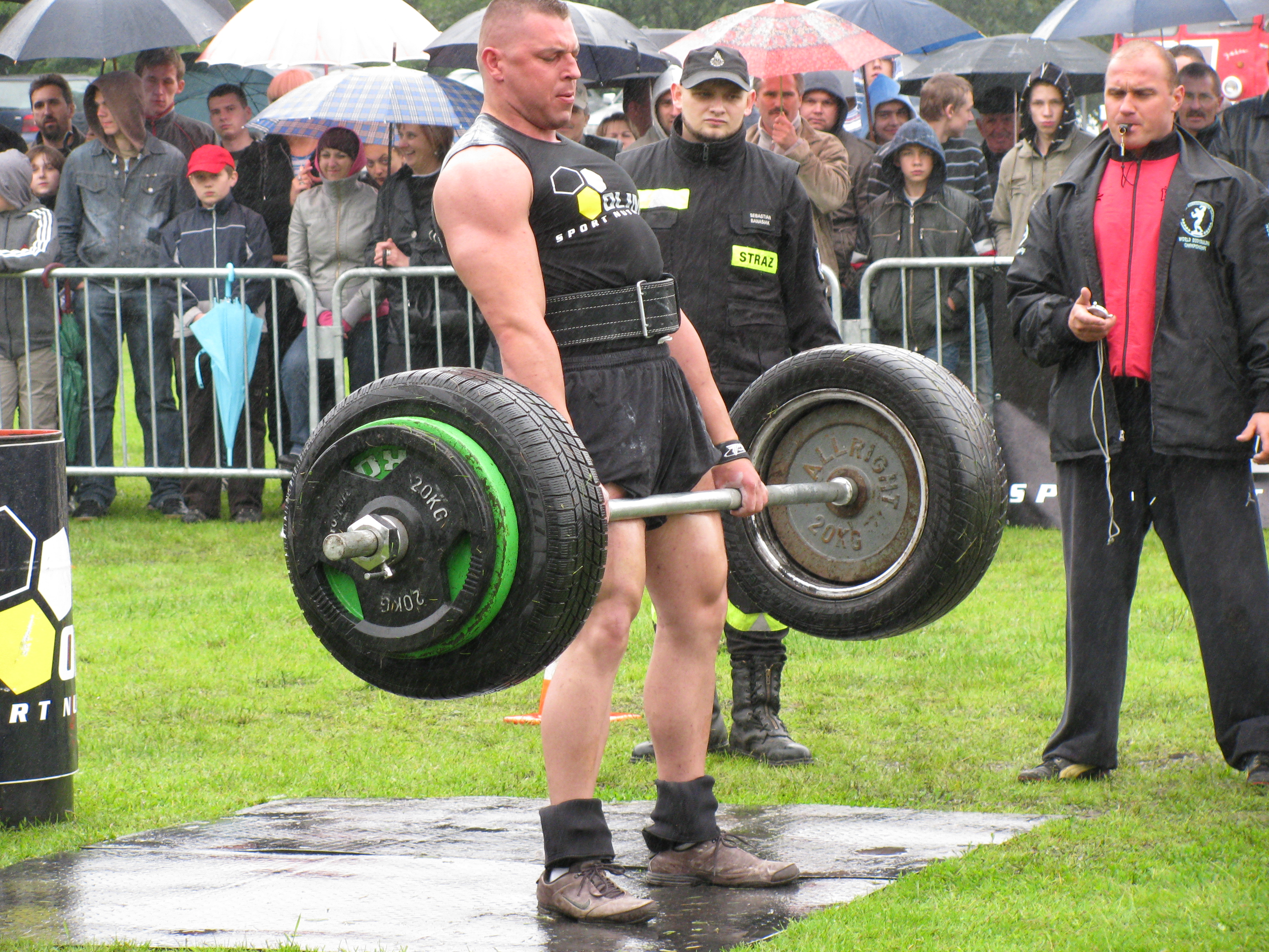 A Strongman exercise: the Deadlift.